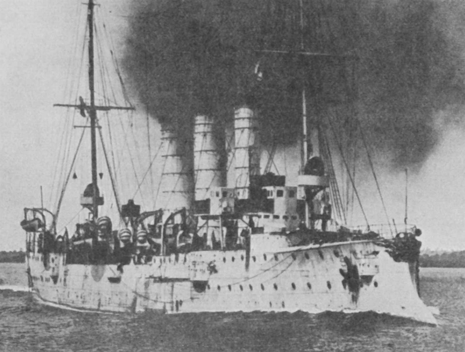 Light cruiser SMS Leipzig of the Imperial German Navy